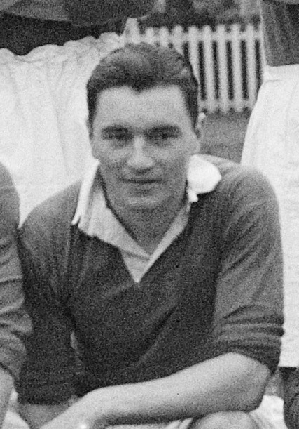 Ken Armstrong.